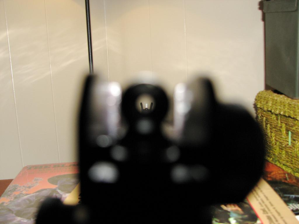 AR15 Sight PictureAR15 Sight Picture